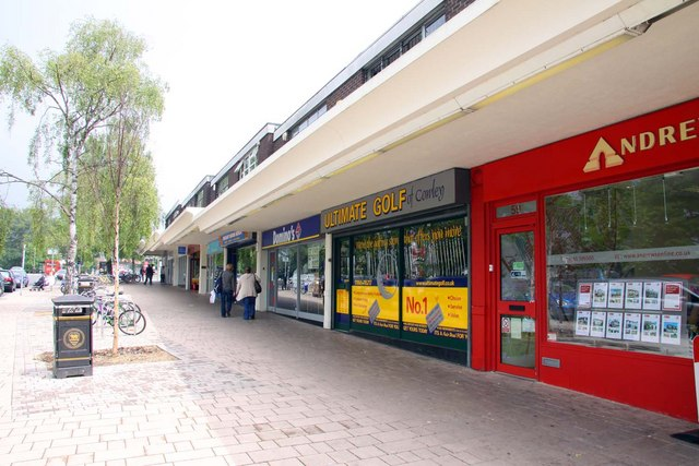 Shops on Between Towns Road